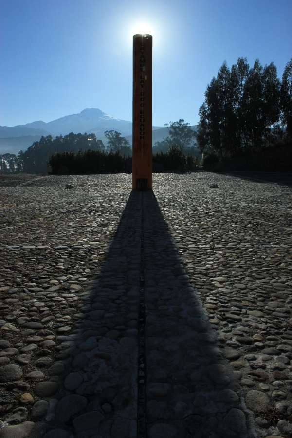 This picture was taken the 23th September 2011 Equinox at 7:21 am. It shows how the sun projects a exact linear shade at equatorial line.